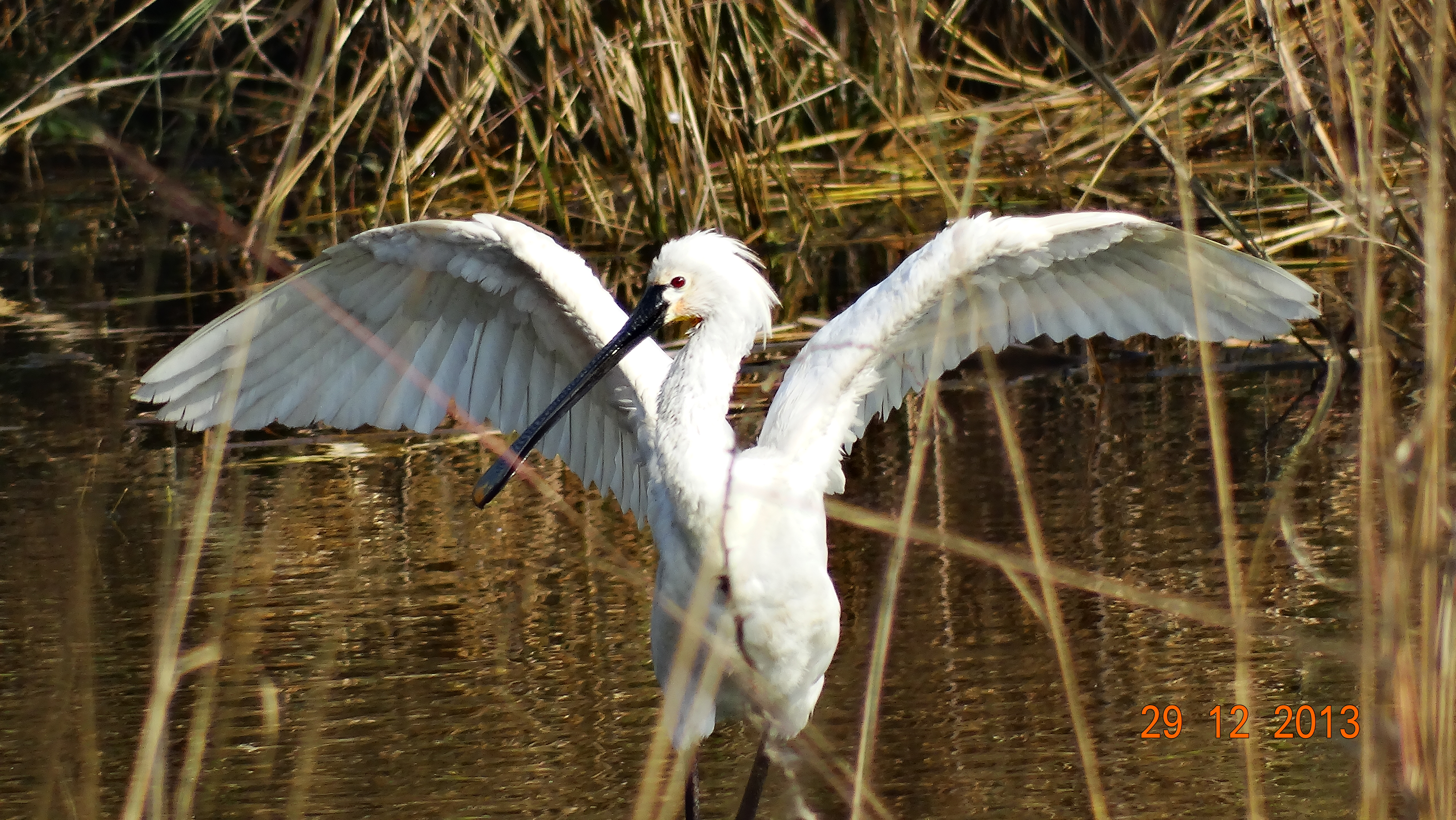 Eurasian spoonbill